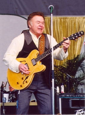 Roy Clark - March 2002 Photo by Alan C. Teeple User:ACT1